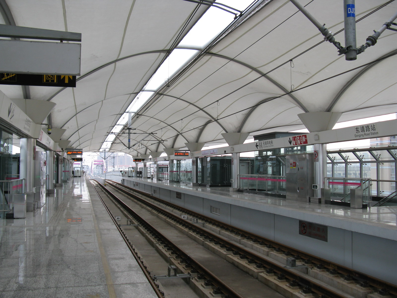 東靖路站-6號線月台 Line 6 Platform of Dongjing Road Station